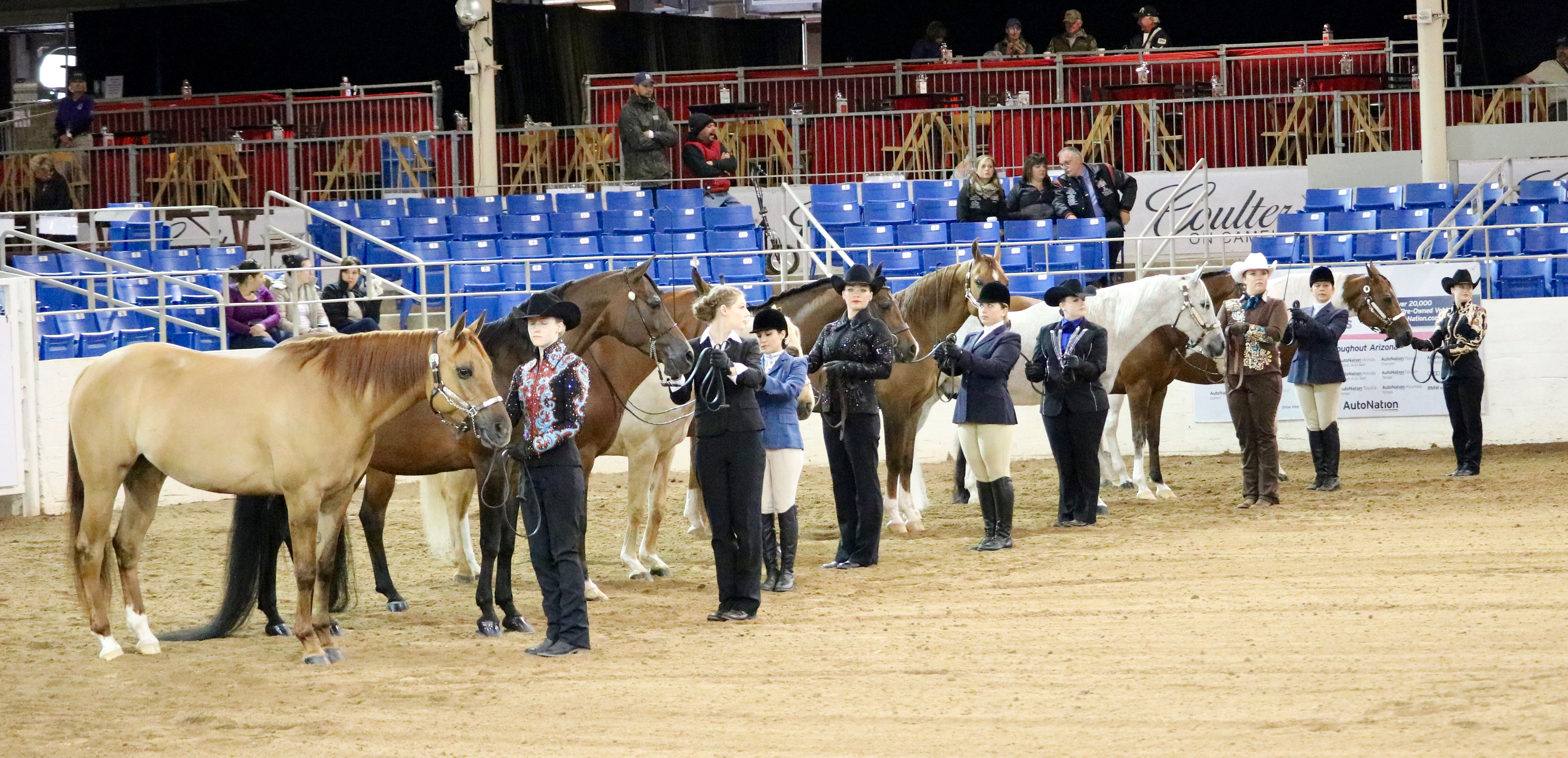 Adult Showmanship class at Scottsdale Arabian Show, 2017